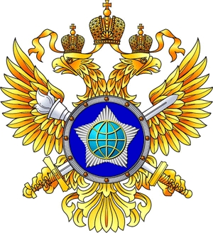 The emblem of Foreign_Intelligence_Service_(Russia)